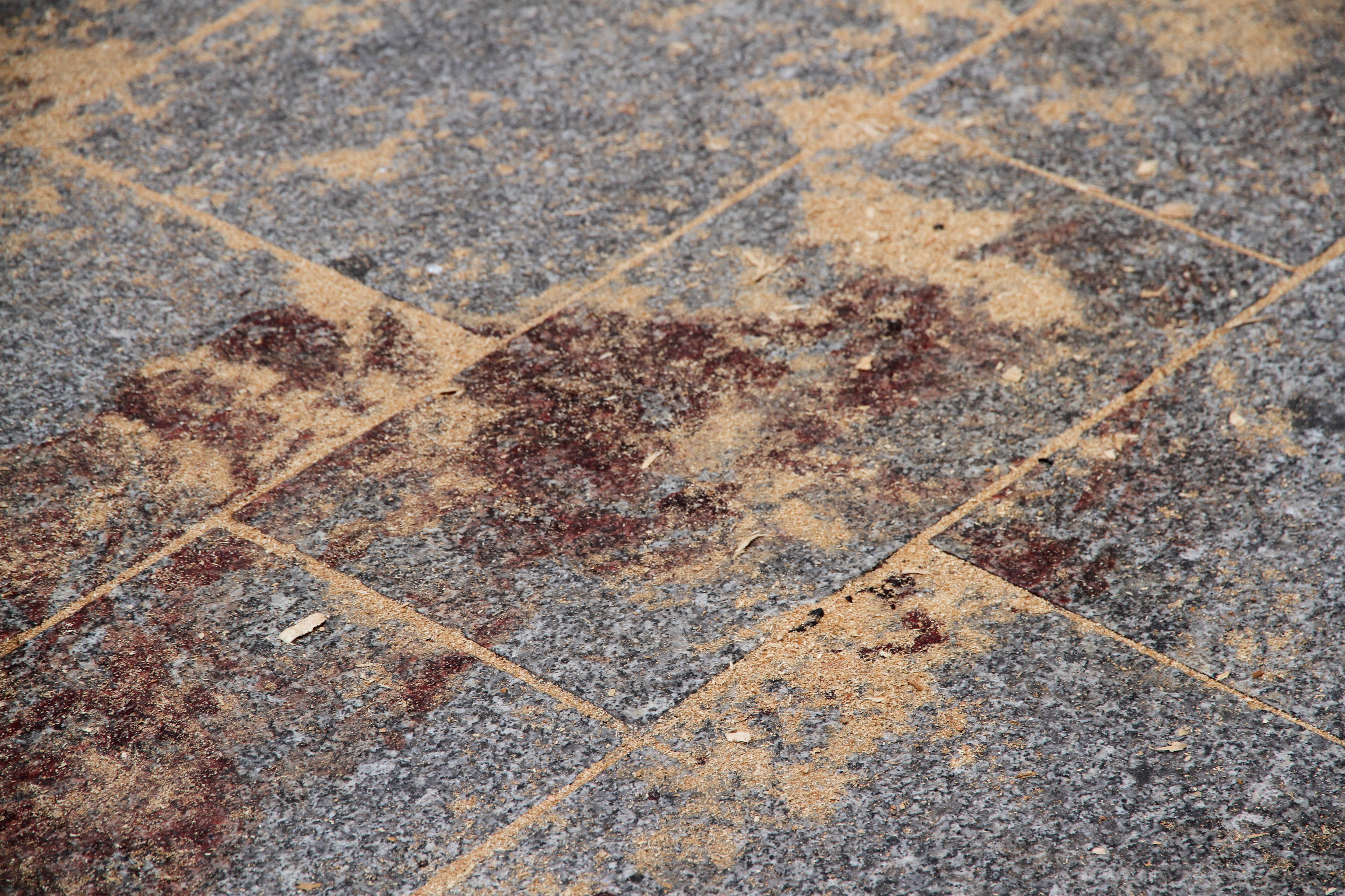 Blood and sand on the ground in front of Le Petit Cambodge / Carillon on the day following November 2015 Paris attacks.